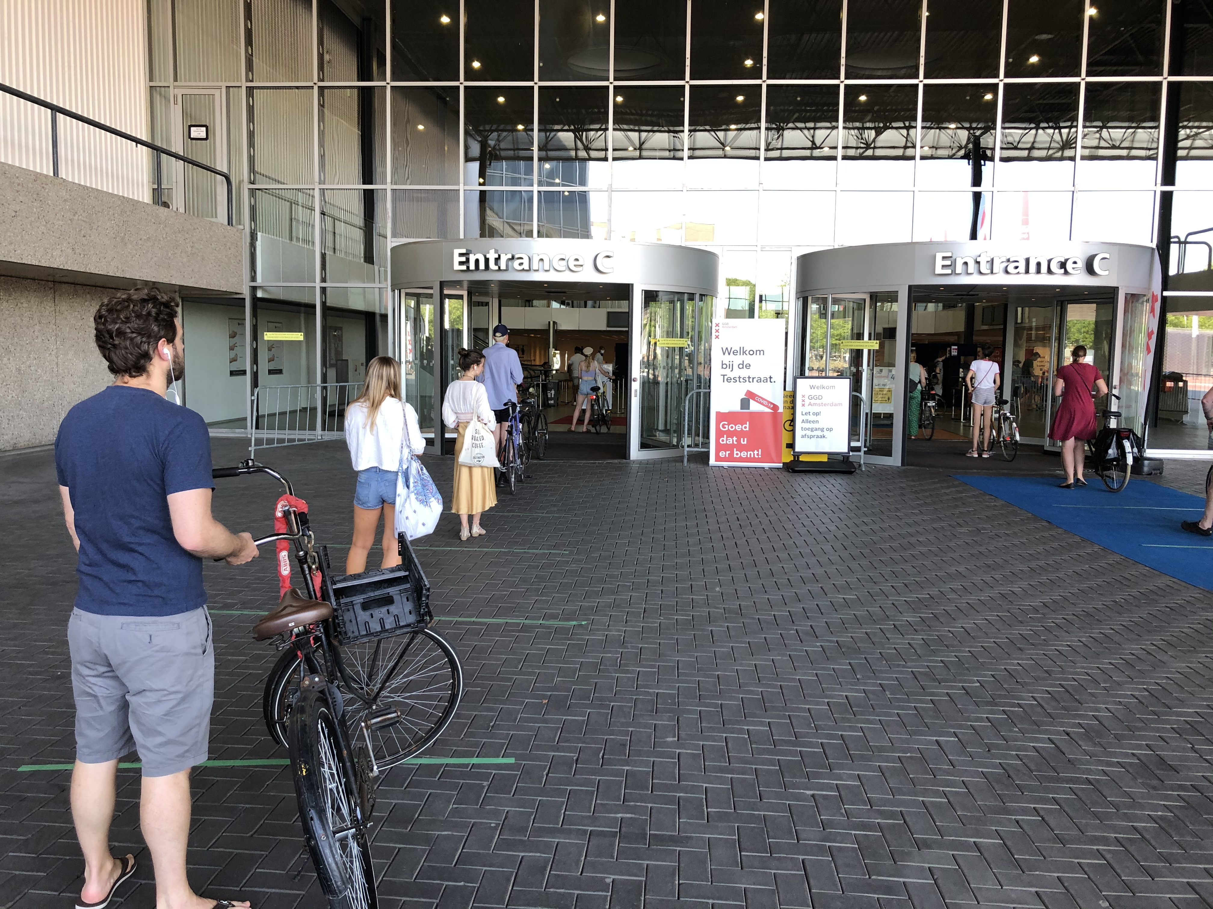 A bicycle drive-through testing street for COVID-19 (coronavirus) testing at the RAI event halls in Amsterdam, the Netherlands.